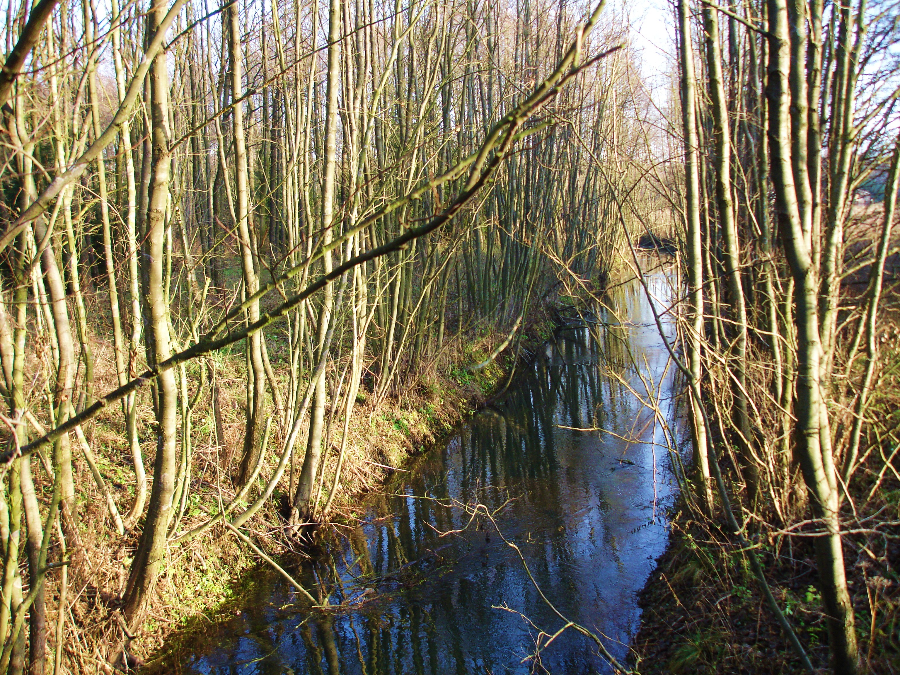 Zielona Struga near the village of Jarki.